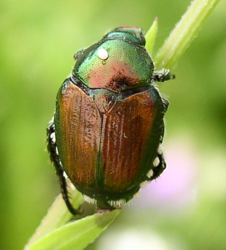 Egg of the tachinid winsome fly (Istocheta aldrichi) on Japanese beetle (Popillia japonica). Tupper Lake, Franklin County, New York, USA. 44.2239° N, 74.4641° W.